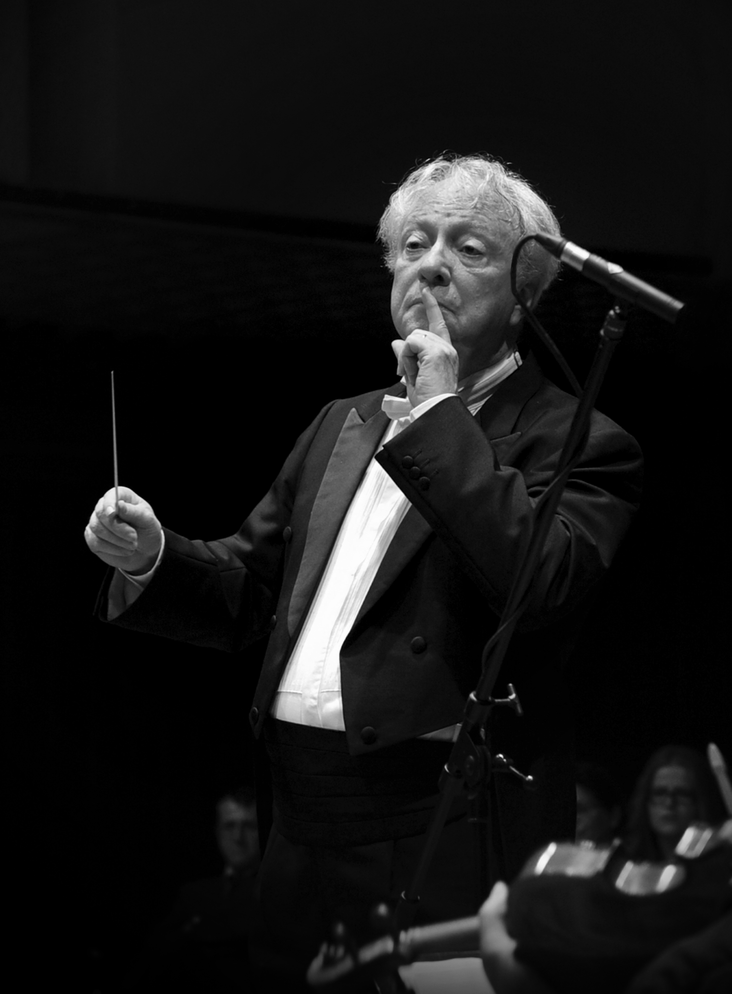 Pavle Despalj, Croatian composer and conductor